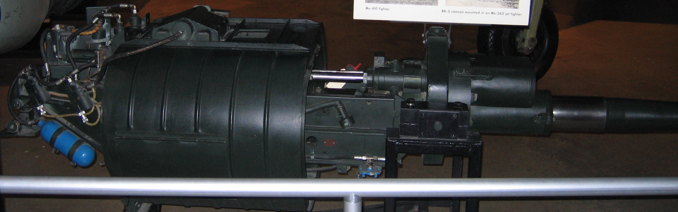 side view of a BK-5 in the National Museum of the U.S. Air Force in Dayton, Ohio